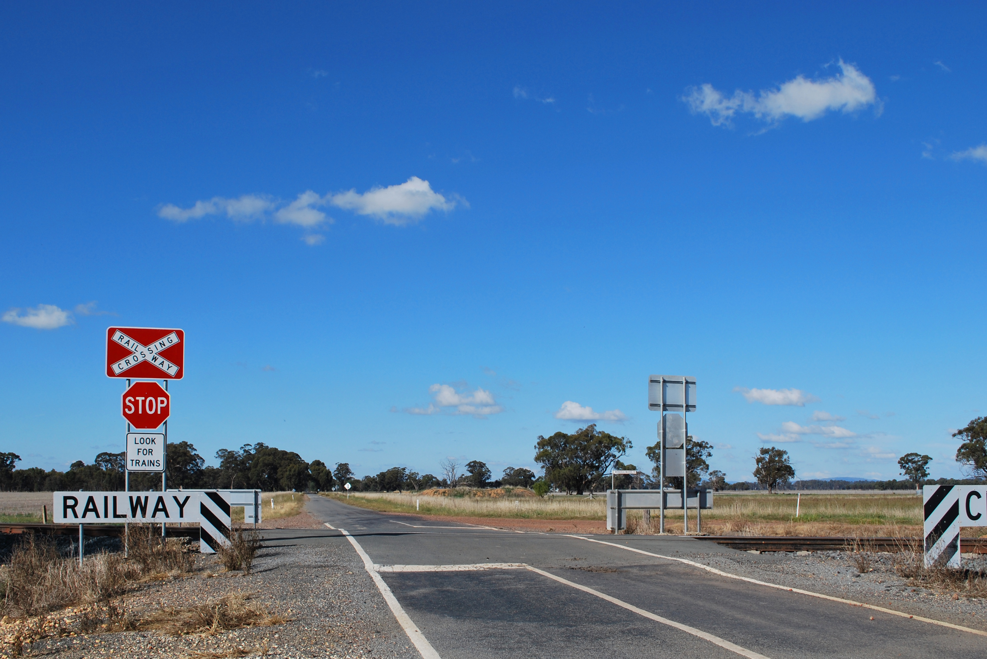 Level crossing over the Shepparton rail line at Wahring, Victoria